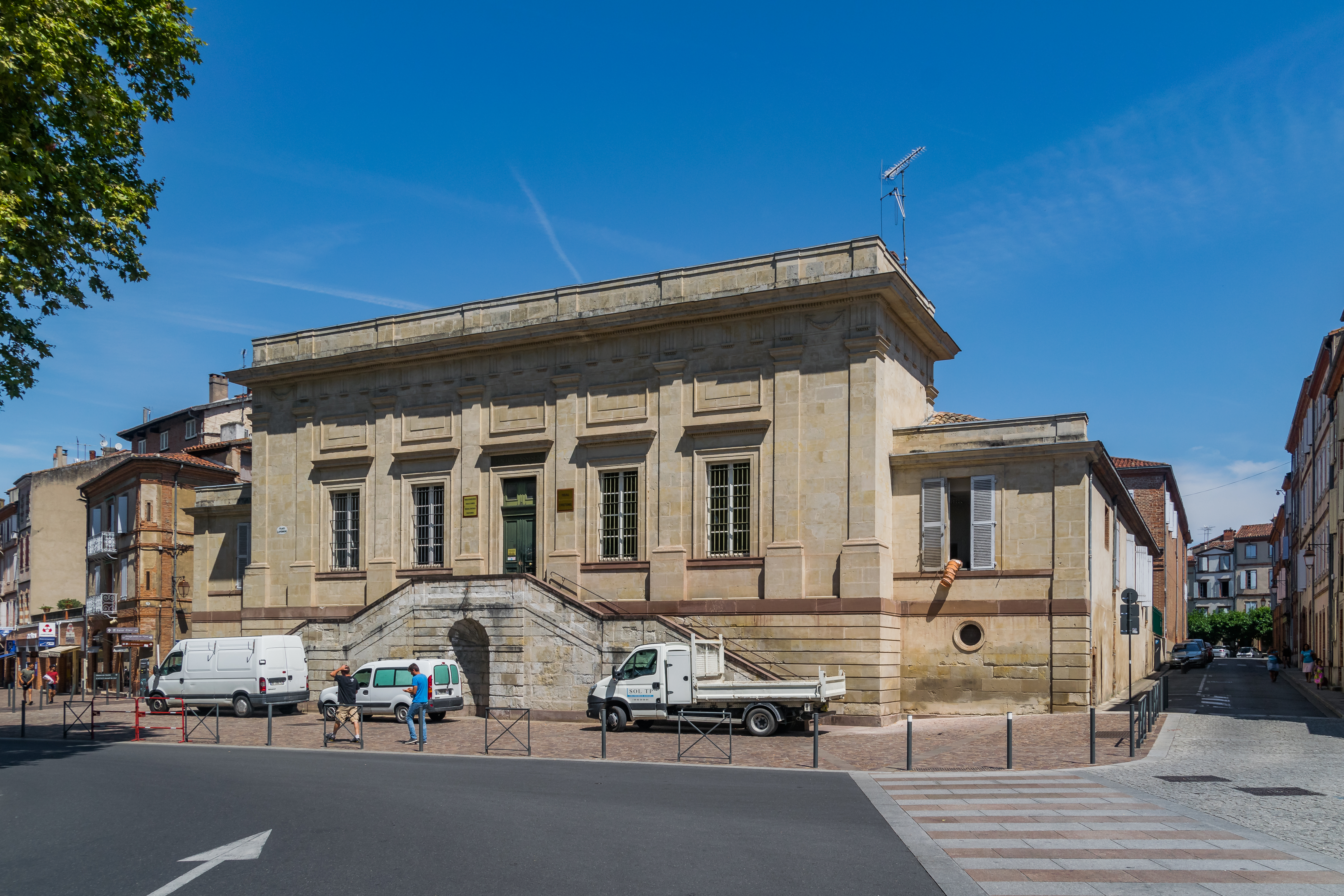 Court of First Instance of Albi, Tarn, France